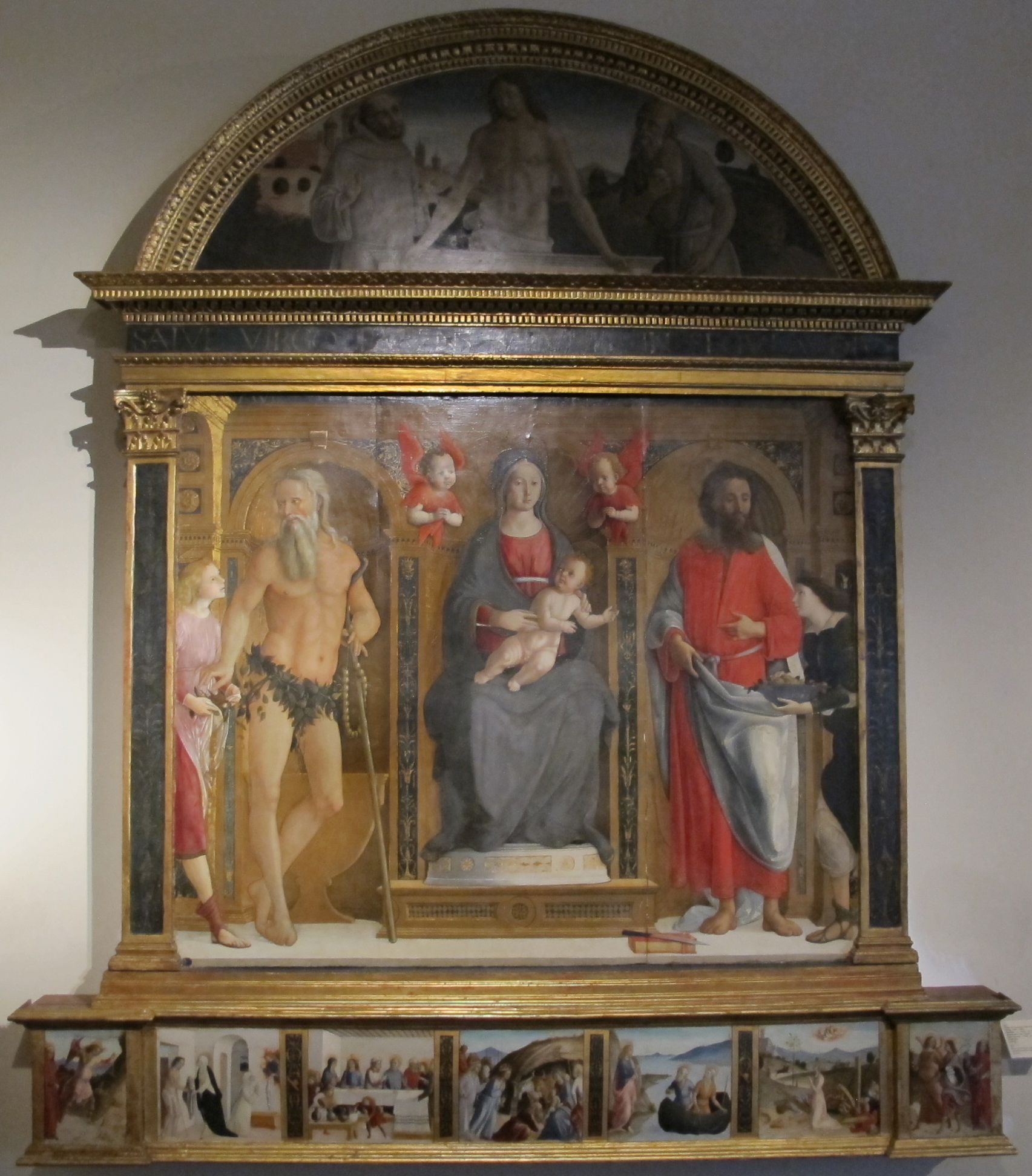 Painting in the National Pinacotheque, Siena